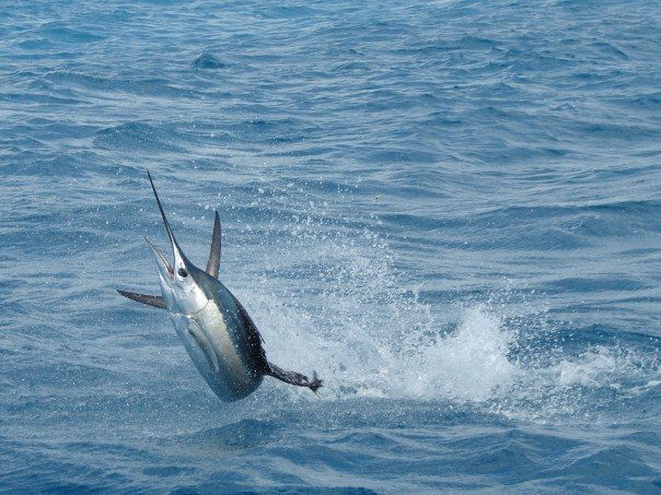 Atlantic sailfish (Istiophorus albicans), Miami, Florida